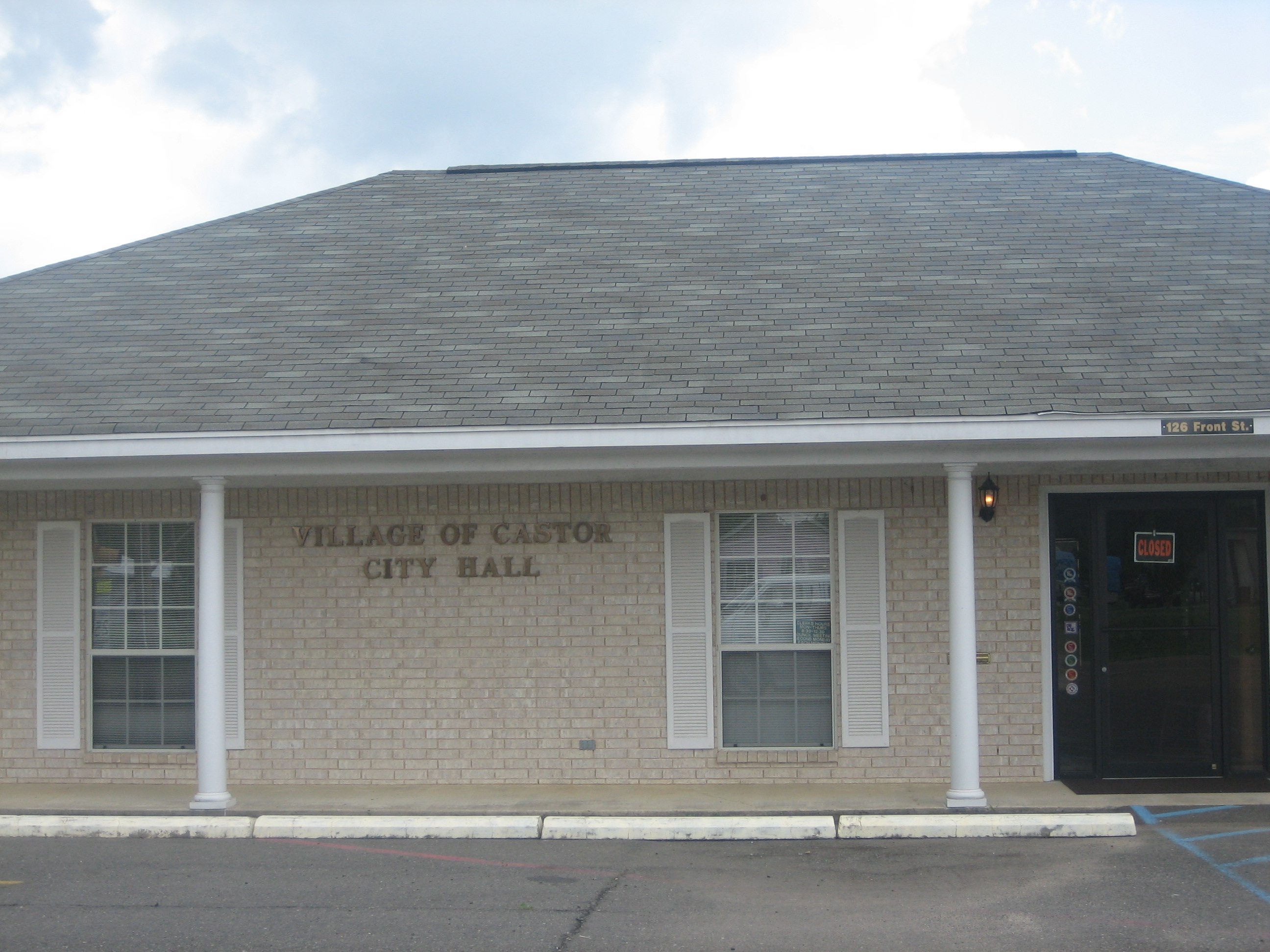 I took photo on May 24, 2009.Billy Hathorn (talk) 23:37, 29 May 2009 (UTC)